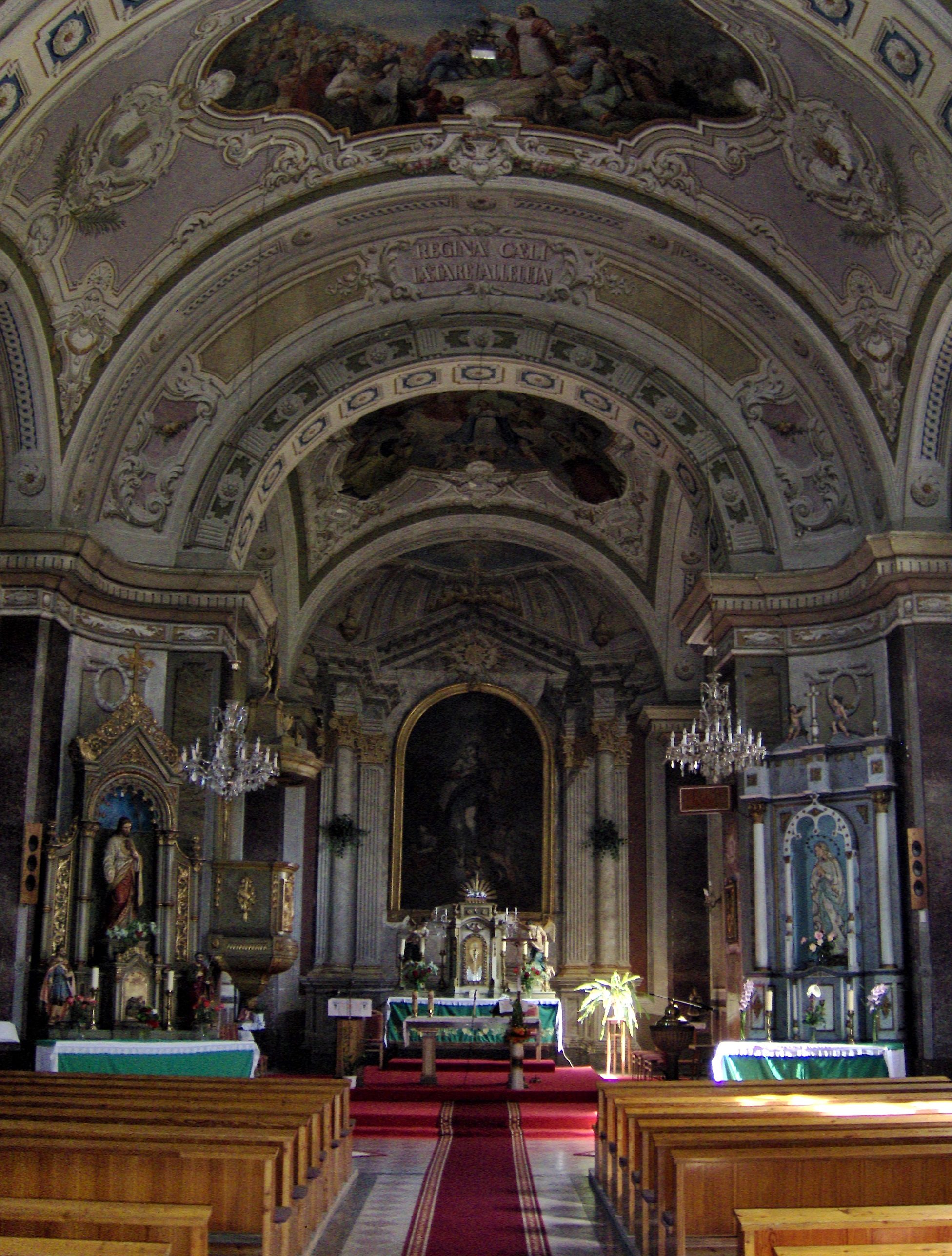 Church in Dolné Rykynčice, (part of Rykynčice) Slovakia